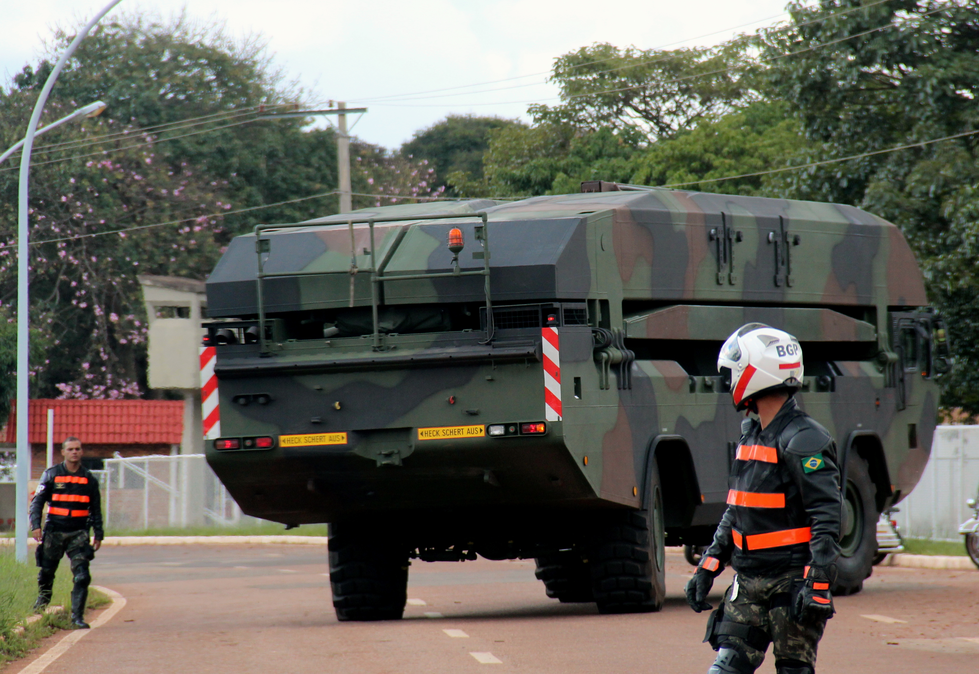 General Dynamics Amphibious Bridging and Ferrying System M3